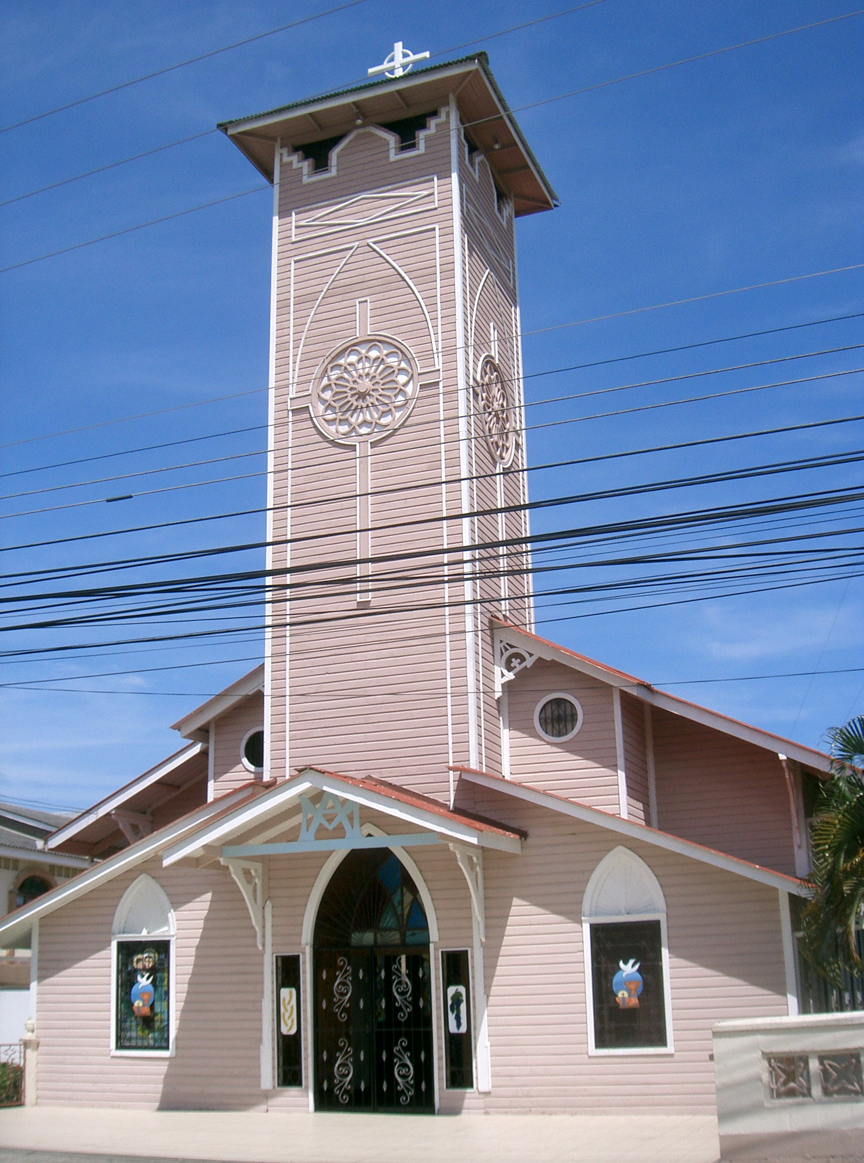 Iglesia San Antonio Catholic church in Tela, Atlantida, Honduras. Photo taken by myself (Ricky Ng-Adam) on March 14th, 2007.